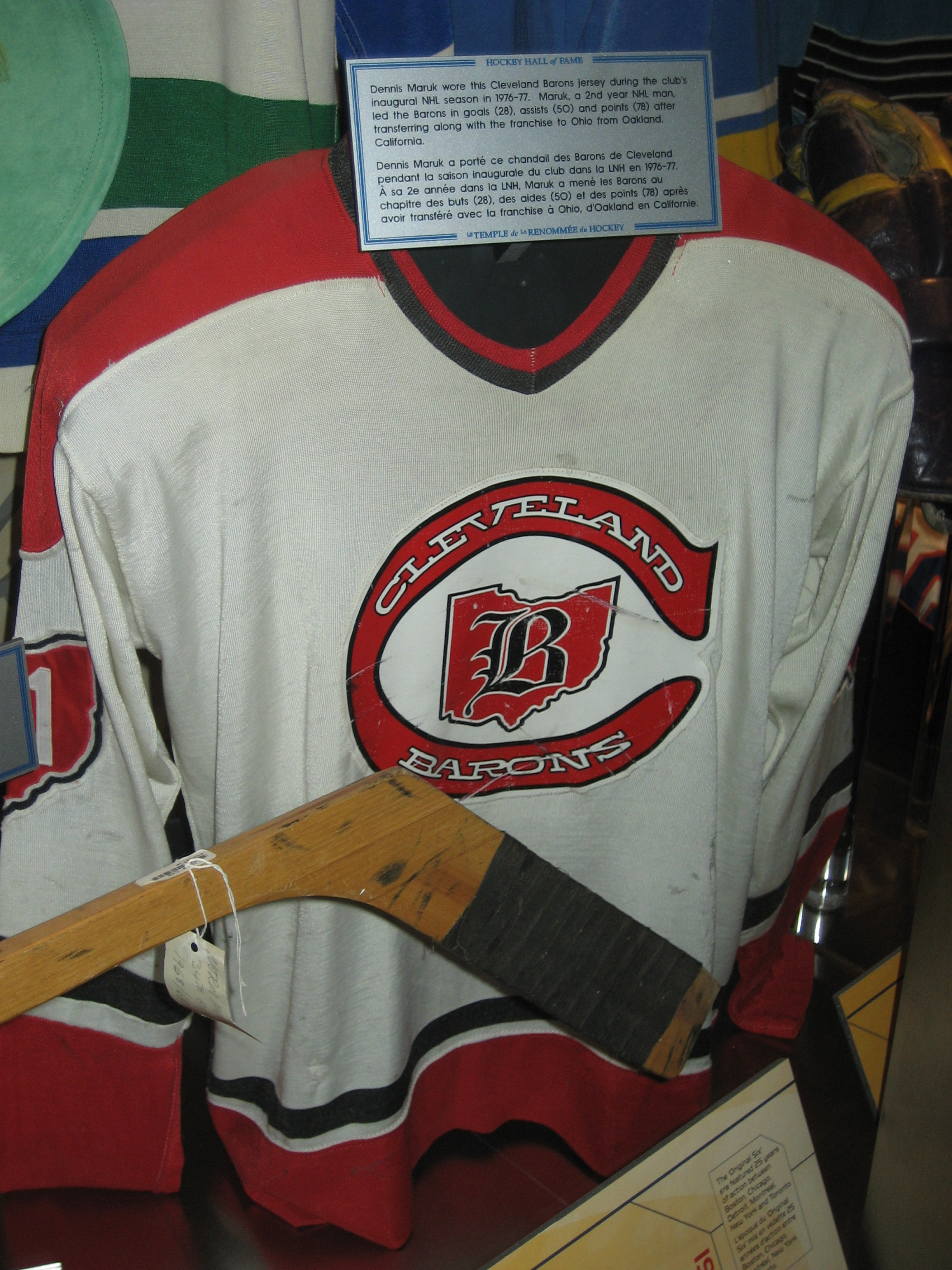 Cleveland Barons NHL jersey, Hockey Hall-of-Fame, Toronto, Ontario, Canada.